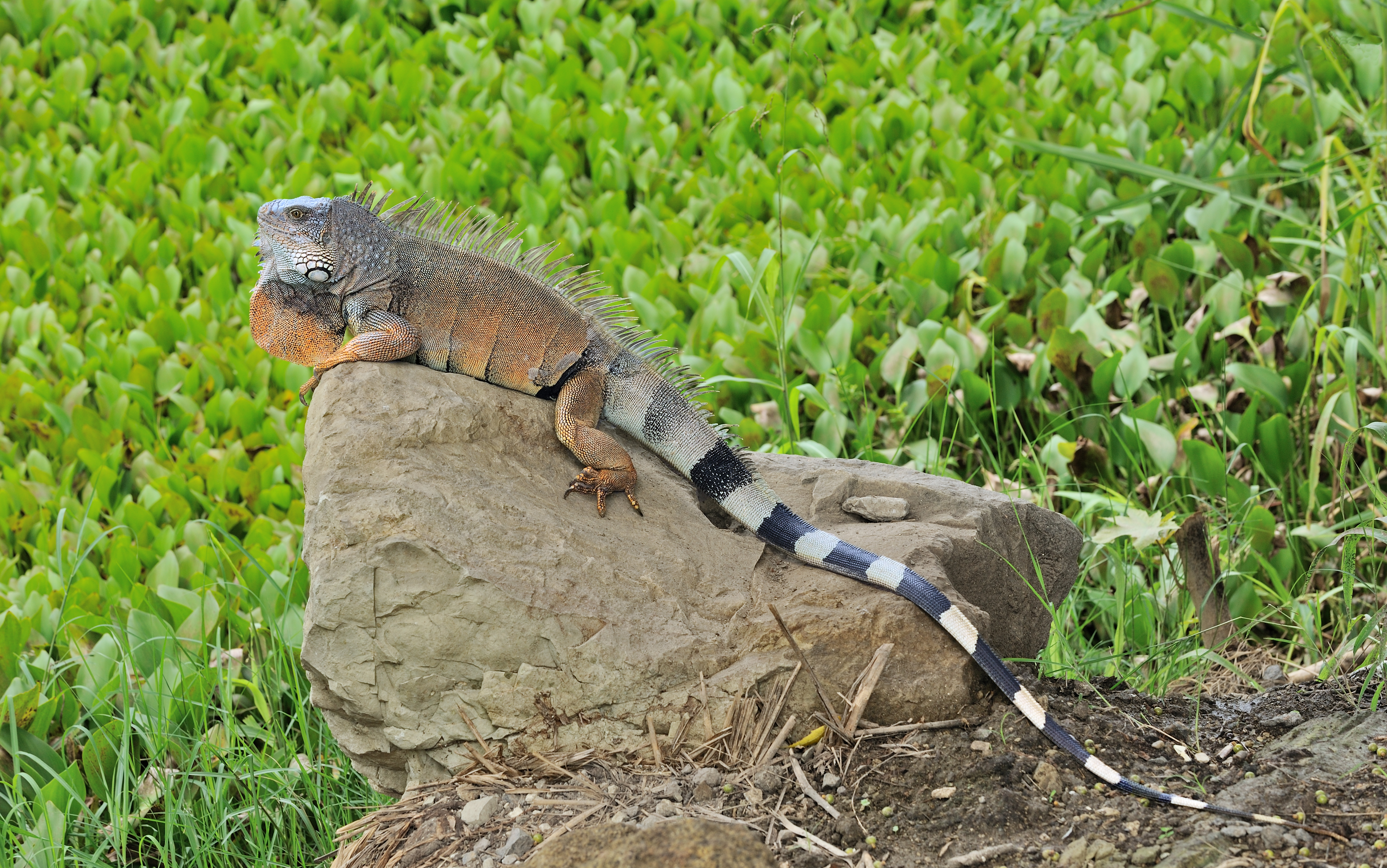 Male wild Green Iguana (Iguana iguana) in the Botanical Garden at Portoviejo, Ecuador.